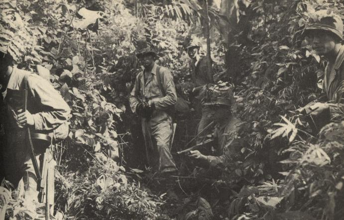 The follow picture is of the 158th in WWII, while conducting a combat patrol.